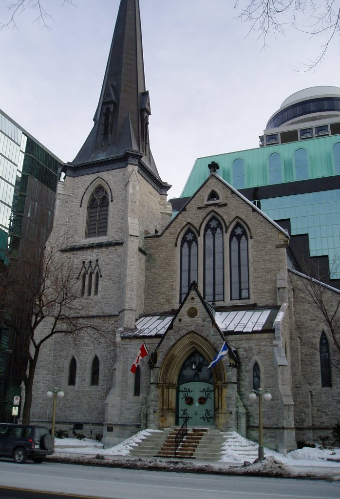 Saint Andrew's Presbyterian Church in Ottawa, Ontario, Canada; January 2005